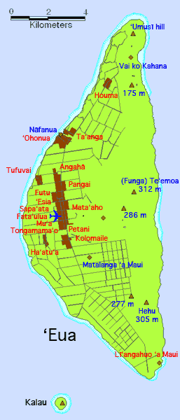 Map of ʻEua, Tonga